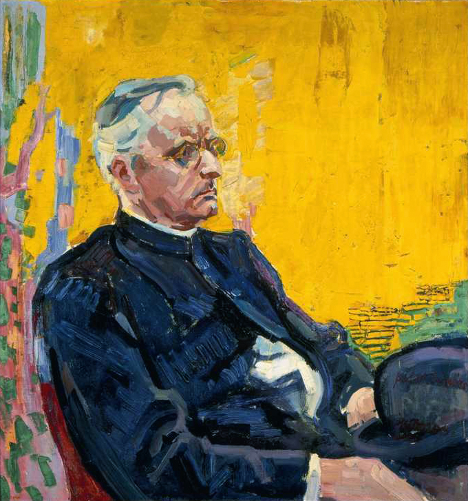 Johann Heinrich Schrörs (1852-1928) oil on canvas 101 x 95 cm signed b.r: prof. Dr. Schrörs / J.T.H.Toorop / 1911